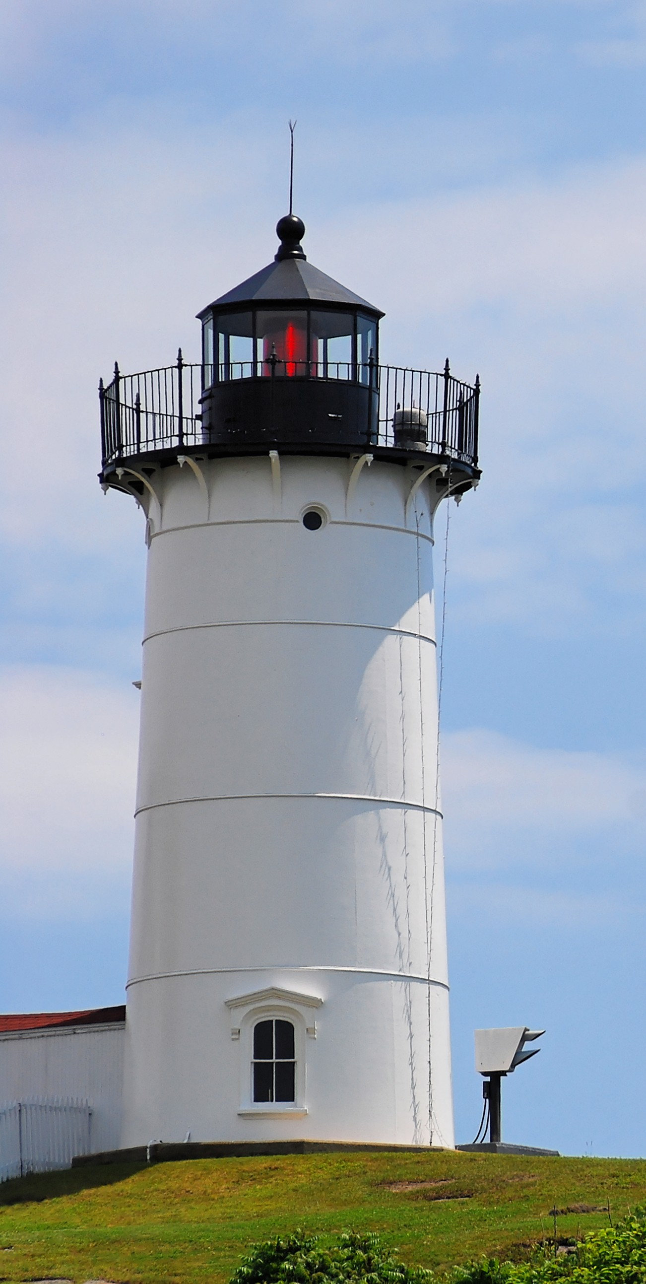 View of the lighthouse tower with the red light signal. On the right on the tower platform the electrical fog signal (fog horn).